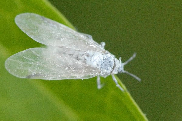 Aleyrodes lonicerae from Commanster, Belgian High Ardennes .